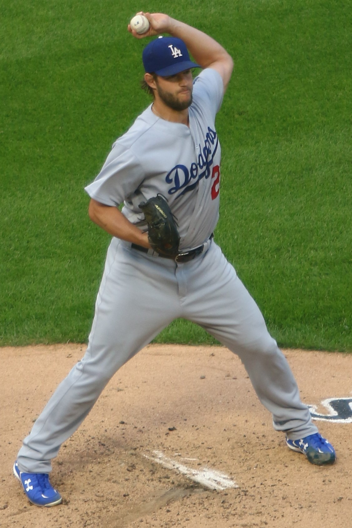 Clayton Kershaw attempts a pickoff for the 2017 Los Angeles Dodgers against the 2017 Chicago White Sox at Guaranteed Rate Field.